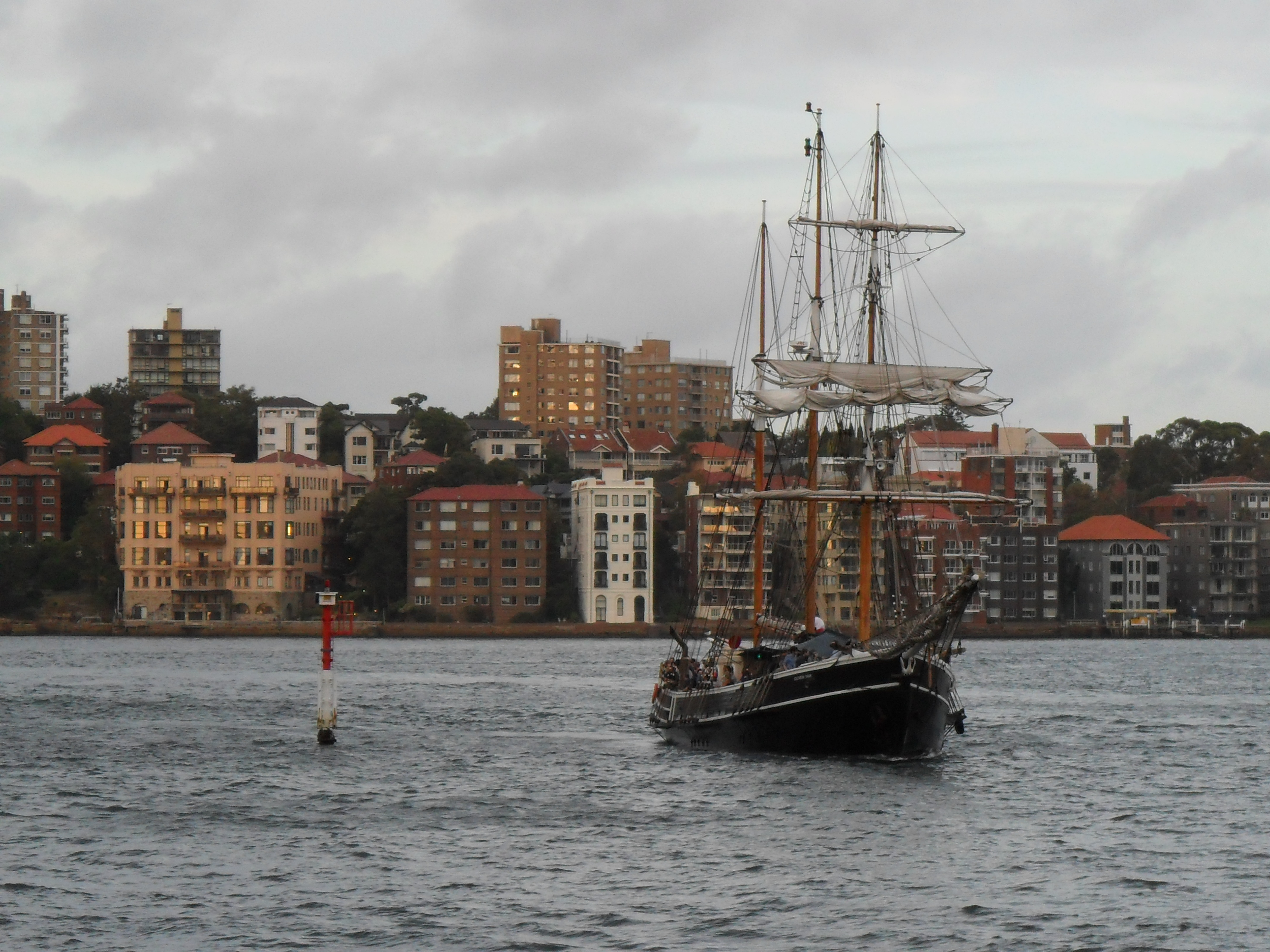 Kirribilli viewed from Campbells Cove